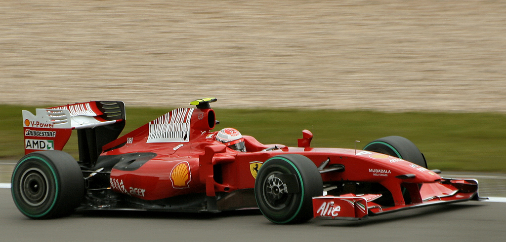 Kimi Räikkönen driving for Scuderia Ferrari at the 2009 German Grand Prix.